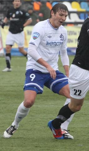 Aleksandr Fomichyov playing for FC Dynamo Bryansk.